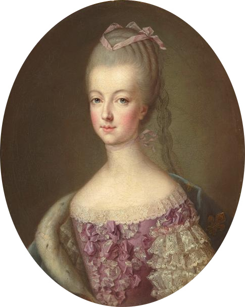 The painting is based on the first portrait that Joseph Ducreaux himself painted in 1769 in Vienna (INV.DESS 1207)